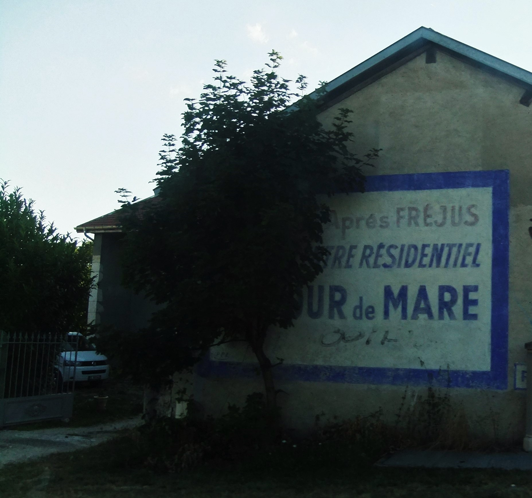 Old painted advertisment for the then-new Tour de Mare residential development near Frejus, on the wall of a farmhouse in Cessy, France. The full text (translated) reads as "2 kilometres after Frejus, the Tour de Mare residential centre is waiting for you..."